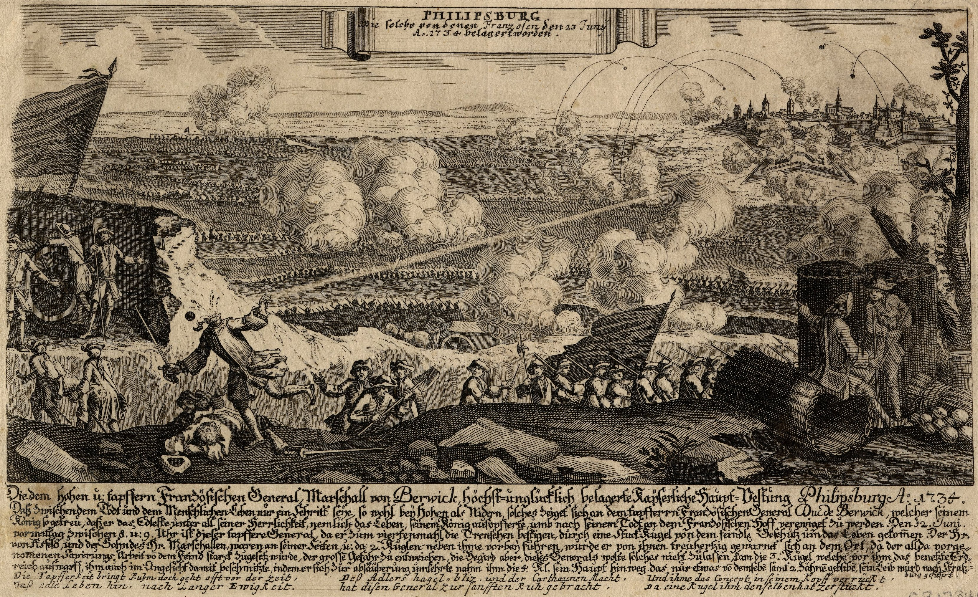 War of the Polish Succession. Attack against Philippsburg in 1734 and death of Marshal Berwick. Print anonymous.